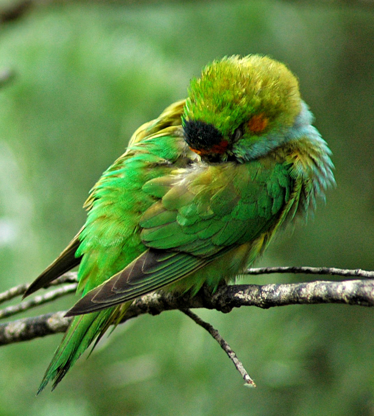 Purple-crowned Lorikeet (Glossopsitta porphyrocephala), Western Australia